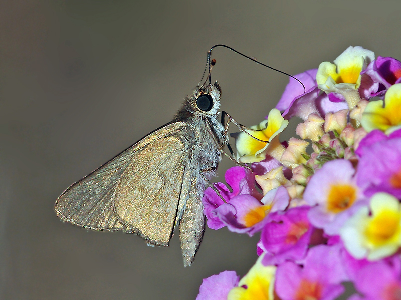 Wing underside view of a pigmy skipper butterfly (Gegenes pumilio). Adana, Turkey.